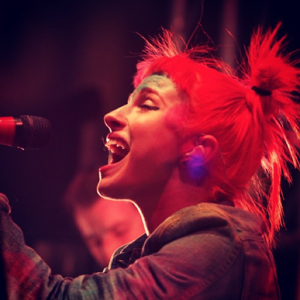 The Belmont